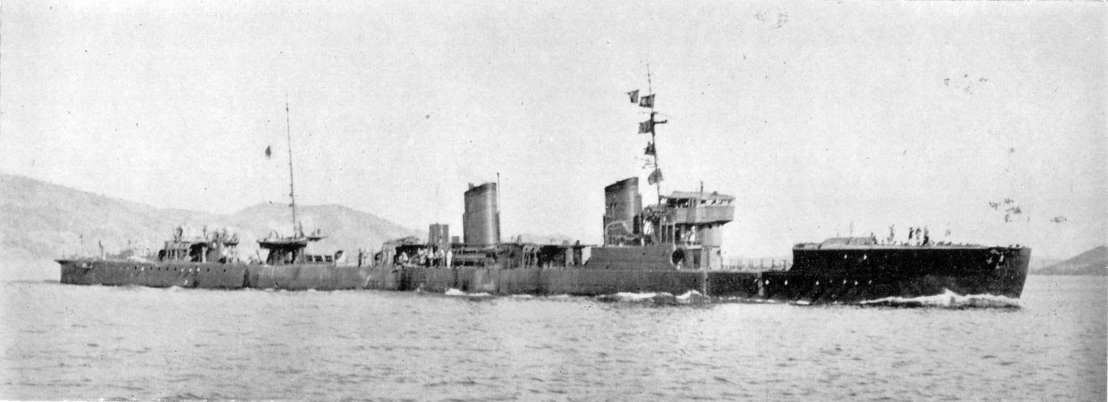 Japanese destroyer Yūkaze. leaving Sasebo for Singapore, 26. 7. 1947.